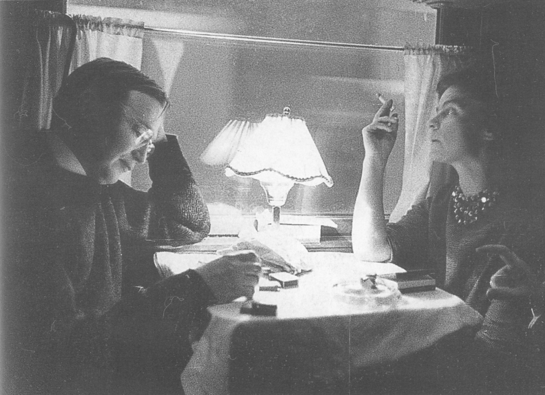 Photograph of the Finnish authors Paavo Haavikko (1931–2008) and Marja-Liisa Vartio (1924–1966)